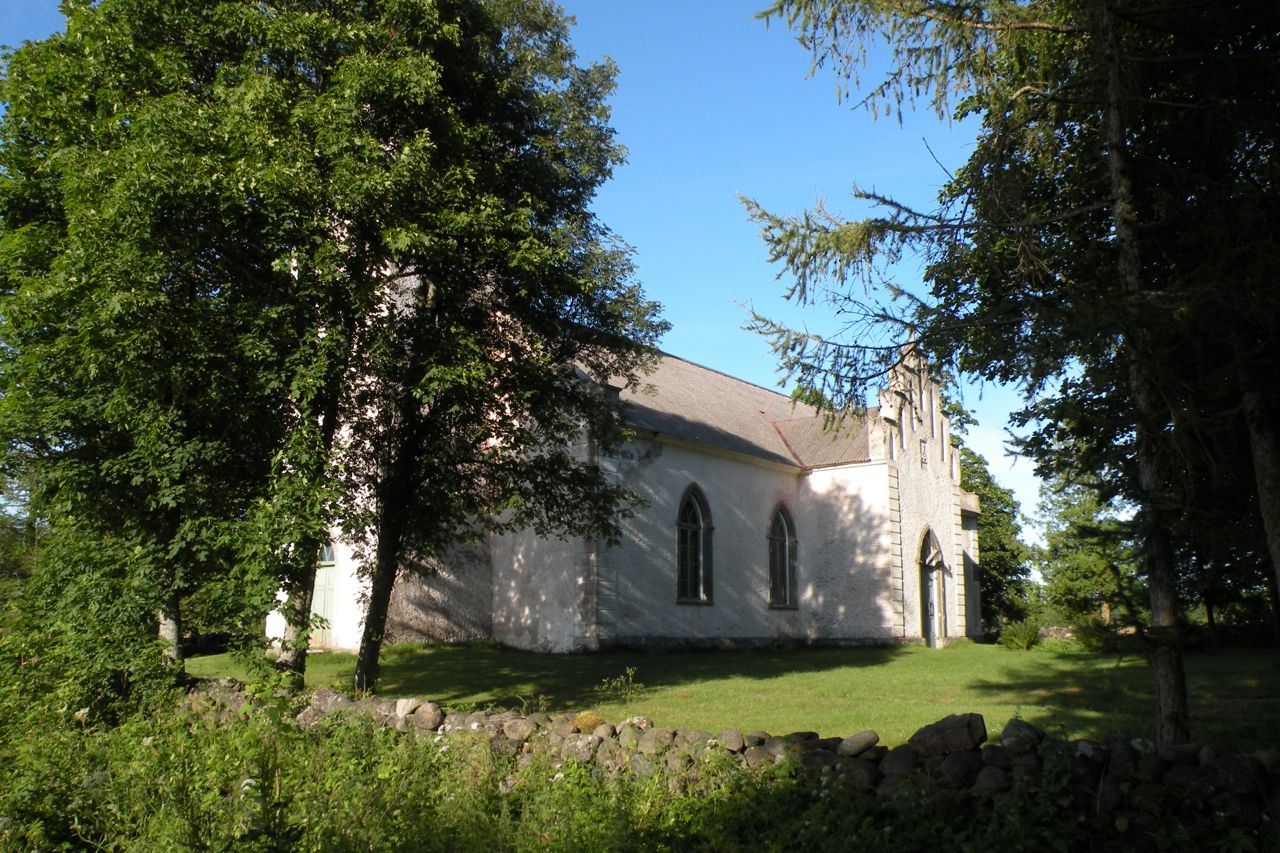 Jämaja Church in Saaremaa